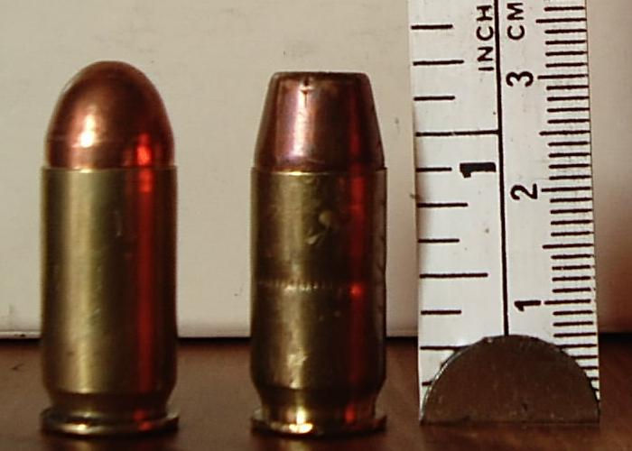 .45 caliber ACP ammunition. Left standard FMJ; right wadcutter.